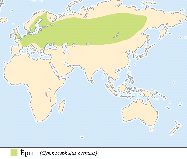 Gymnocephalus cernuus in Europe